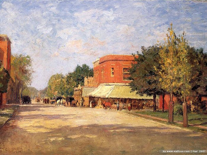 Street in Vernon